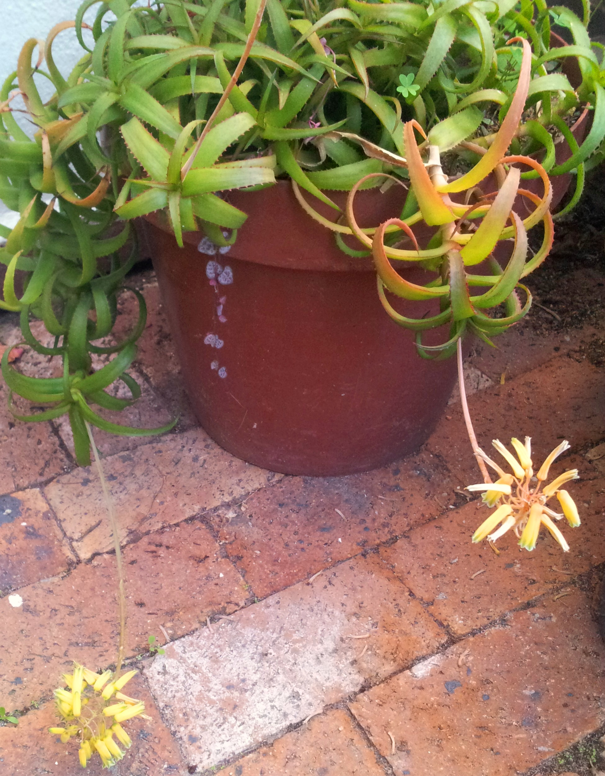 Aloe bruynsii from Madagascar in cultivation in Cape Town